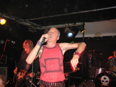 TV Smith live in "Geschwister Scholl Haus" Neuss, Germany. 26.05.2006. In the background: Vom Ritchie on the "Die Toten Hosen" Drumset. Shot by Christian Malte Bürger.